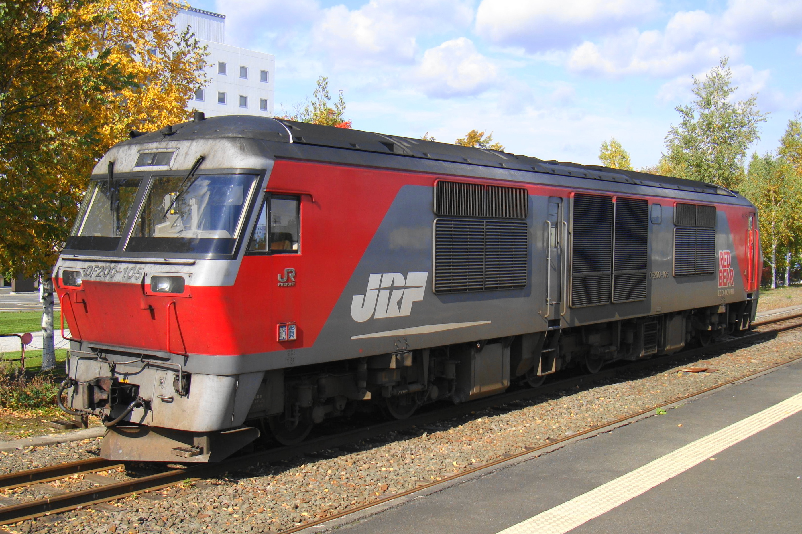 JR Freight Class DF200 diesel locomotive DF200-105 at Furano Station